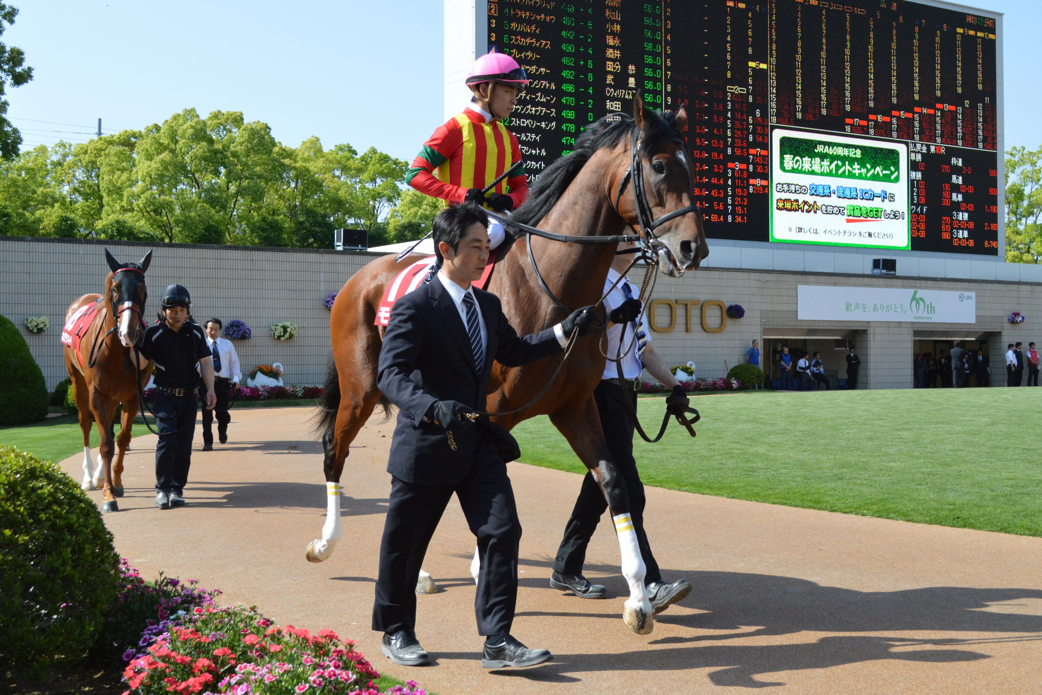 Japanese race horse Maurice at Kyoto racecourse. Kyoto (JPN) 10 May 2014Kyoto Shimbun Hai (Grade 2) (Turf) (3yo) 1m3f Firm RankHorse NameOddsAgeWgtJockeyTrainer1st Hagino Hybrid (JPN)61/10C38-11Shinichiro AkiyamaKunihide Matsuda7thMaurice (JPN)121/10C38-11Yuga KawadaNaohiro YoshidaOthers are omitted. (18 horses entered in a race.)